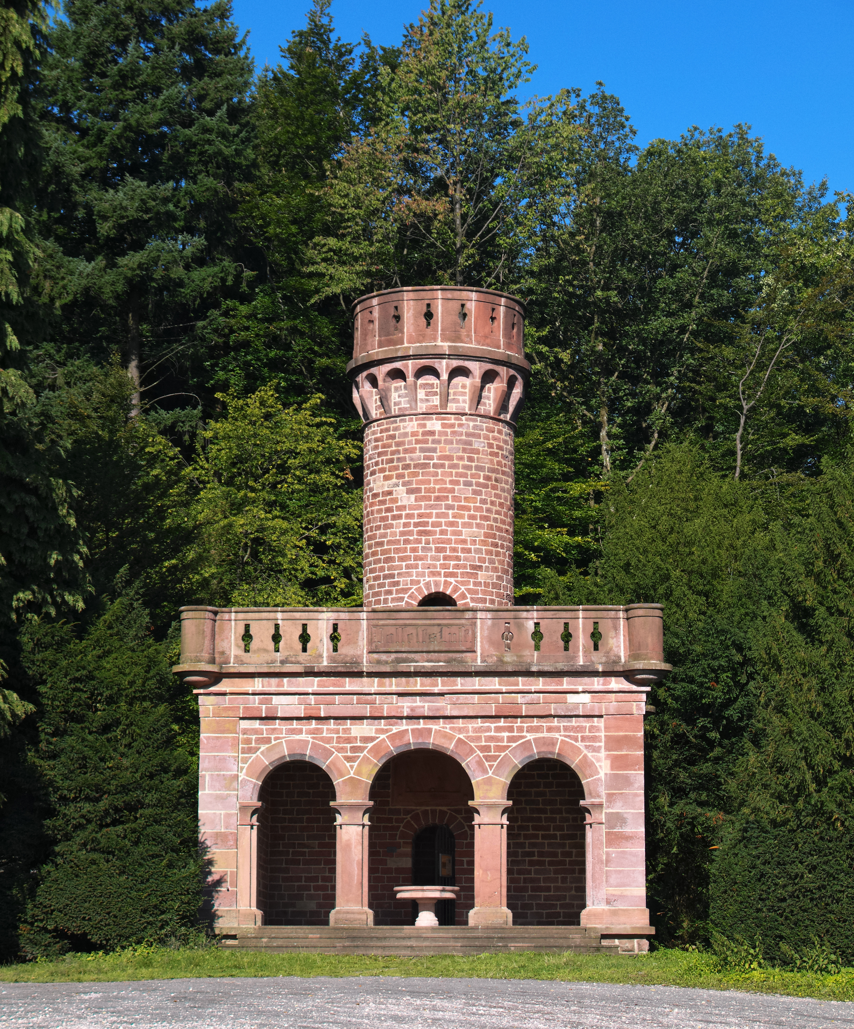 Observation tower Posseltslust, settlement Kohlhof, Heidelberg in Germany